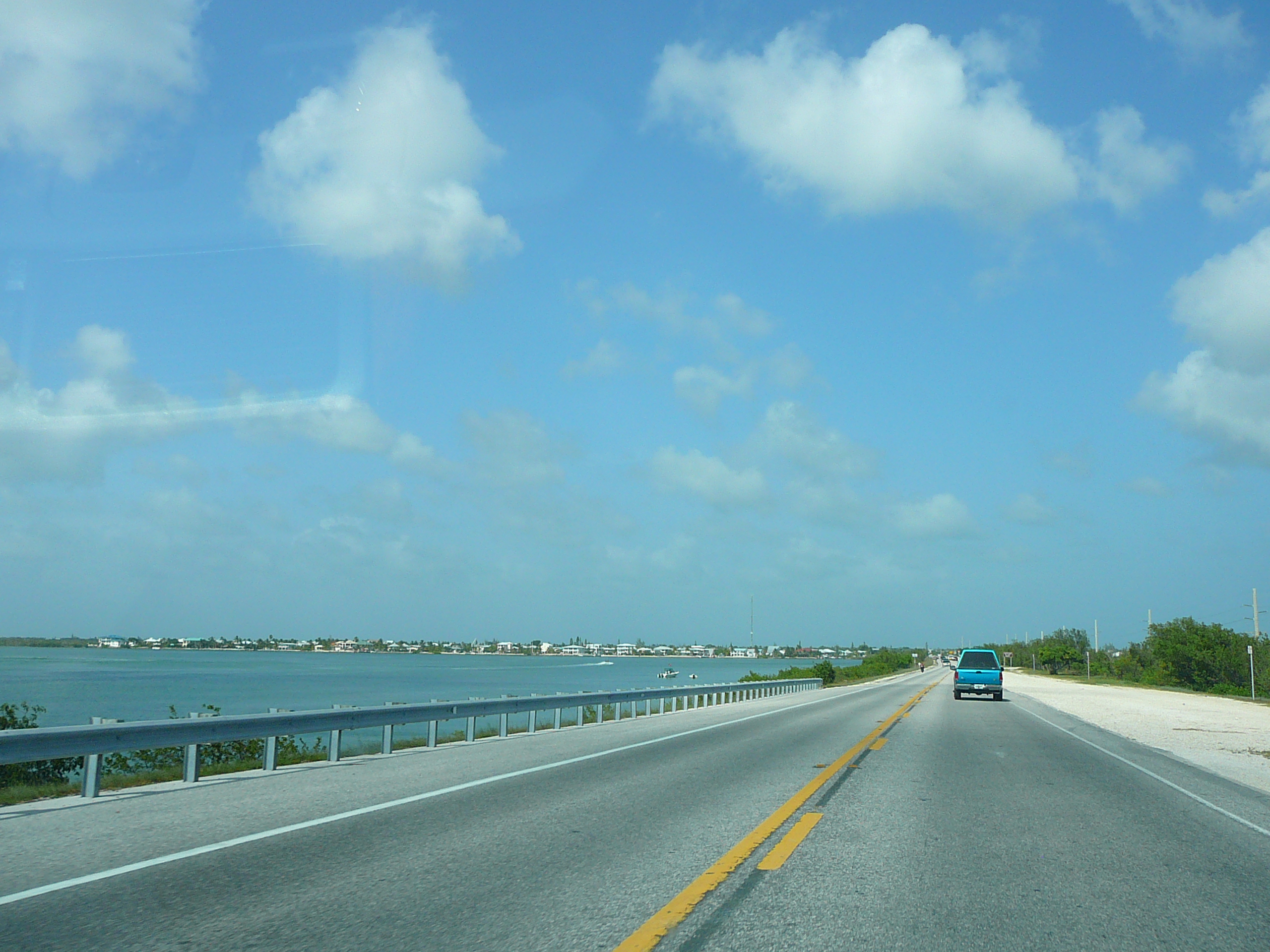 Digital photo taken by Marc Averette. Big Pine Key in the Florida Keys